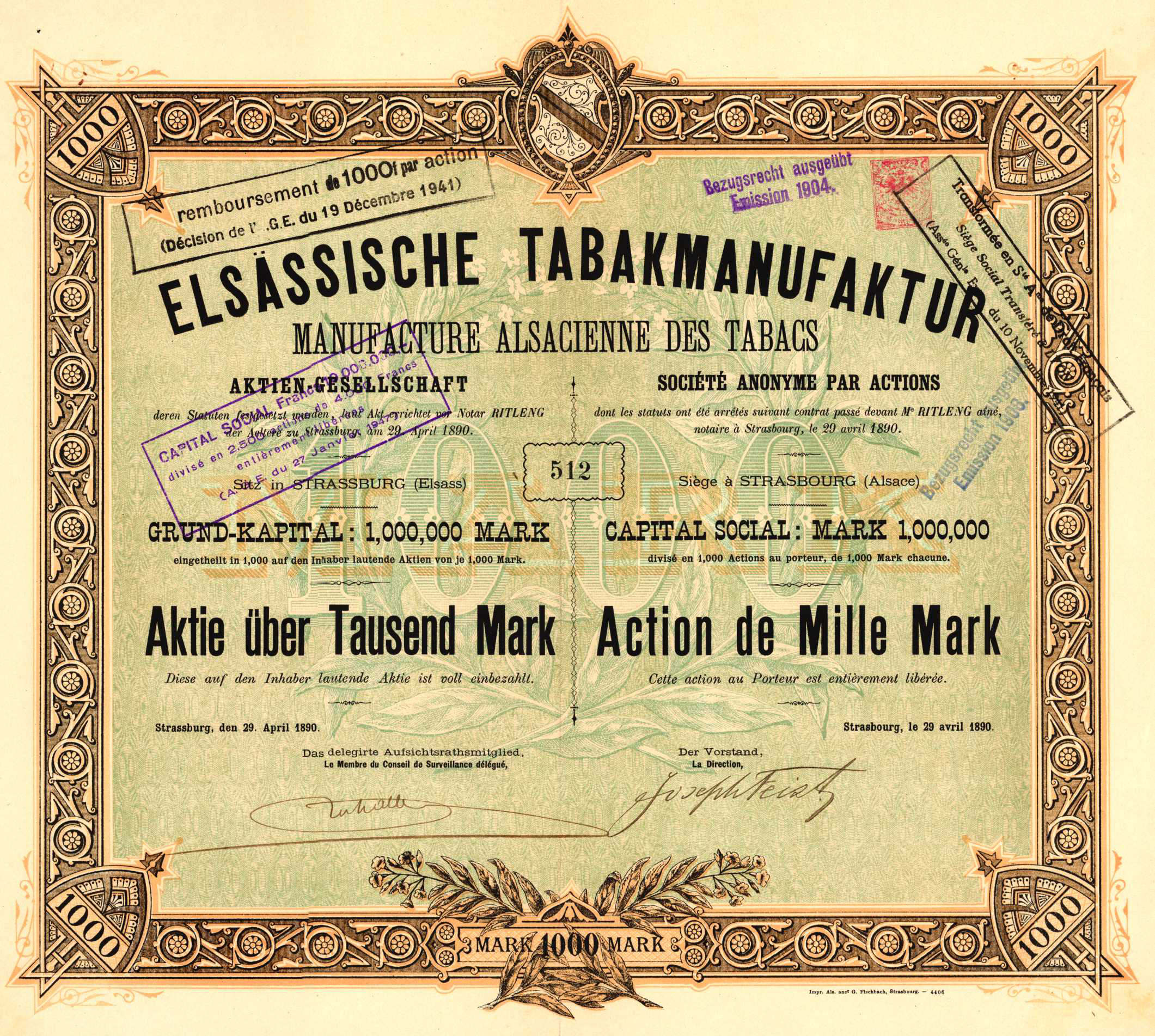 Share of the Elsässische Tabakmanufaktur, issued 29. April 1890, signed by Jules Schaller